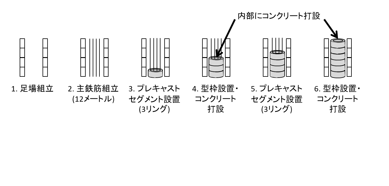 Figure displaying construction cycle of piers for Shin-Meishin Mukogawa Bridge using precast segment.